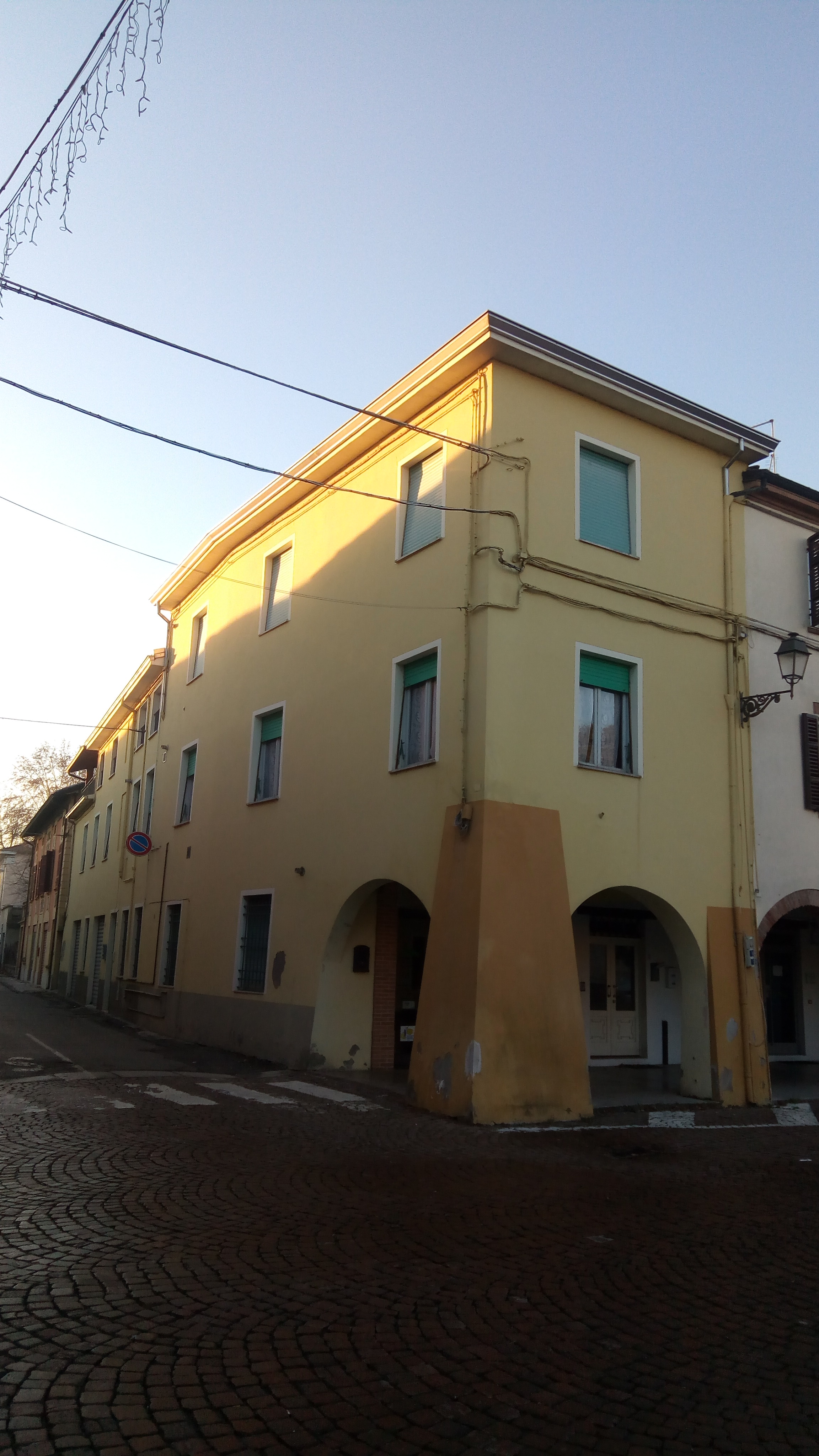 Saint Claire Monastry1